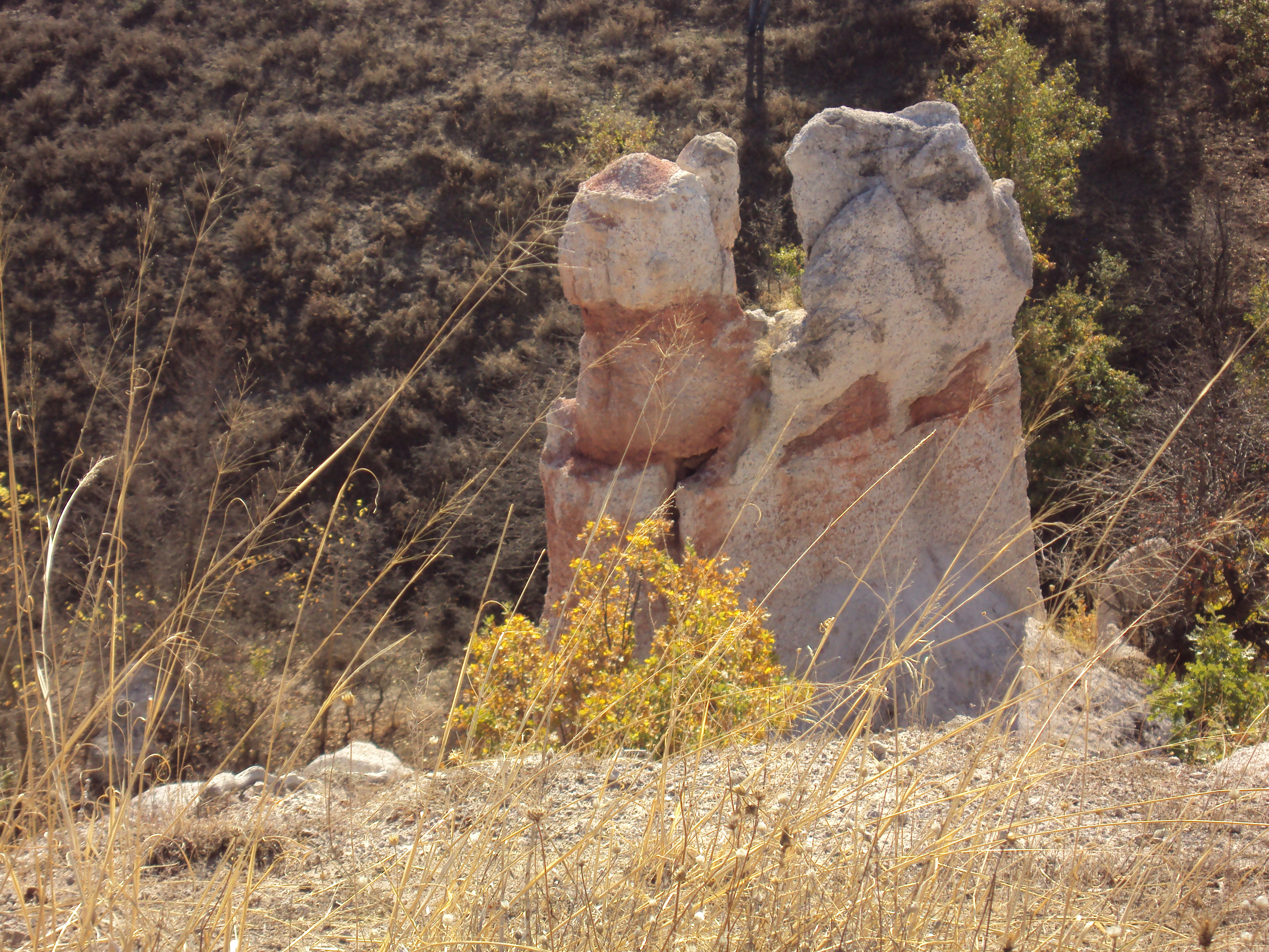 Kardzhali pyramids; Bulgaria